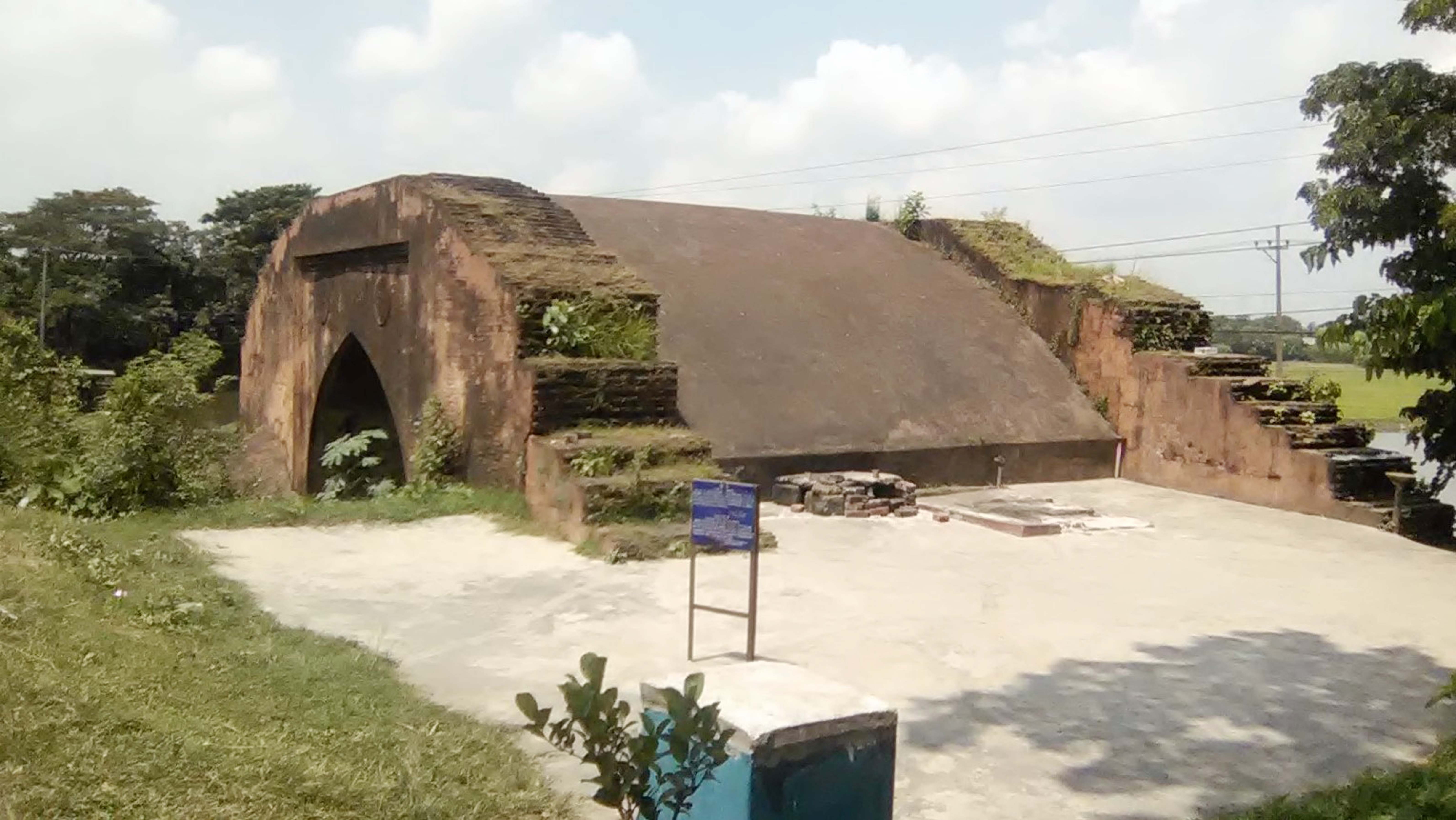 Bariura Ancient Bridge is a ancient bridge in Brahmanbaria District, Chittagong, Bangladesh.